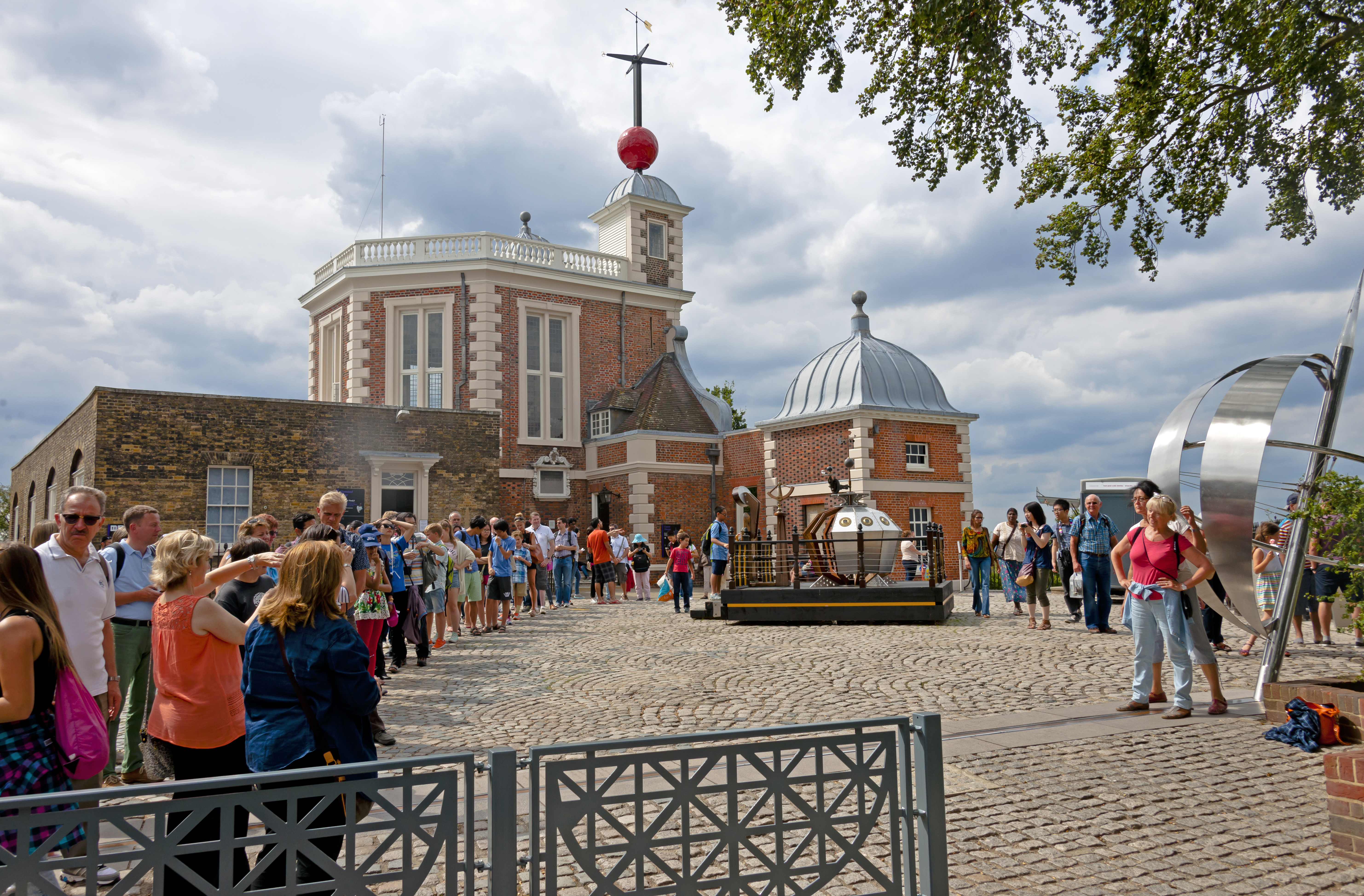 Tourists at the Royal Observatory, Greenwich, in line to take pictures of themselves with the Prime Meridian monument.